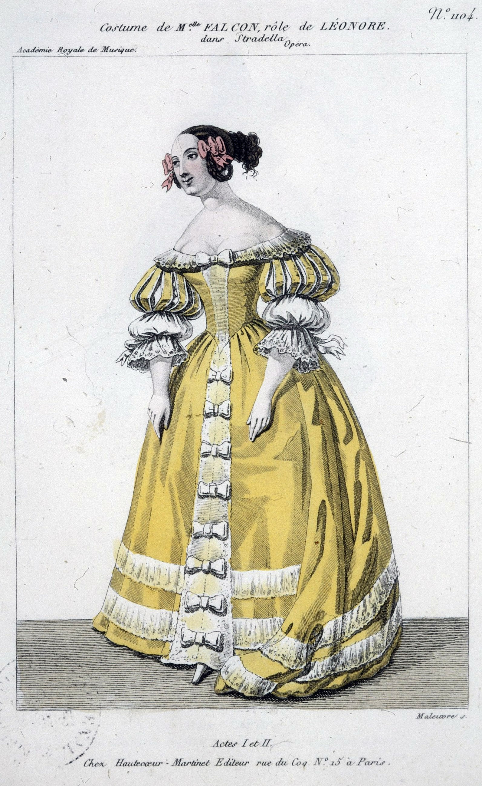 Costume design for Cornélie Falcon in the role of Léonor in Acts 1 and 2 of Niedermeyer's opera Stradella